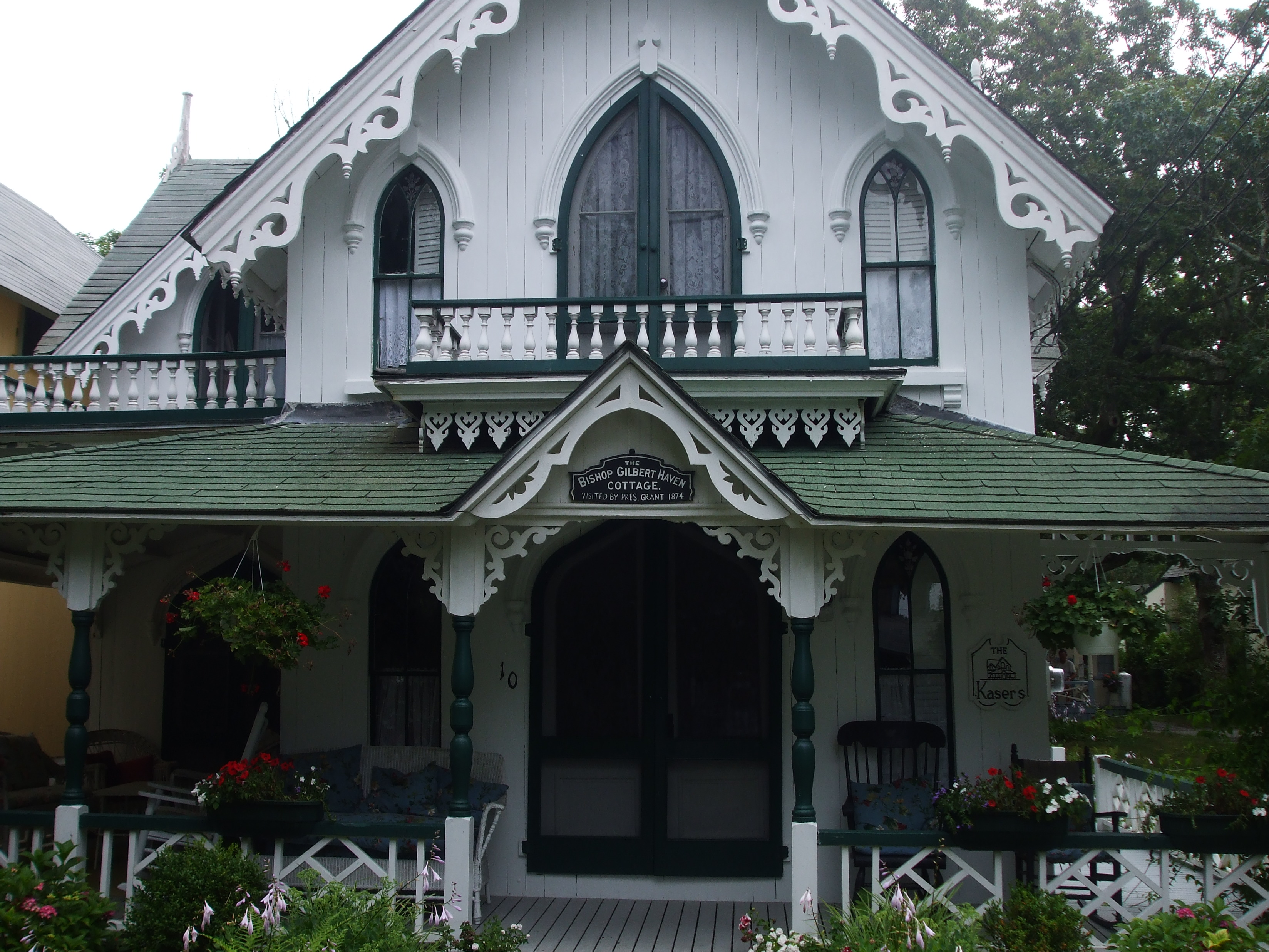 Bishop Gilbert Haven cottage; Clinton avenue, Oak Bluffs, Martha's Vineyard, Massachusetts, USA